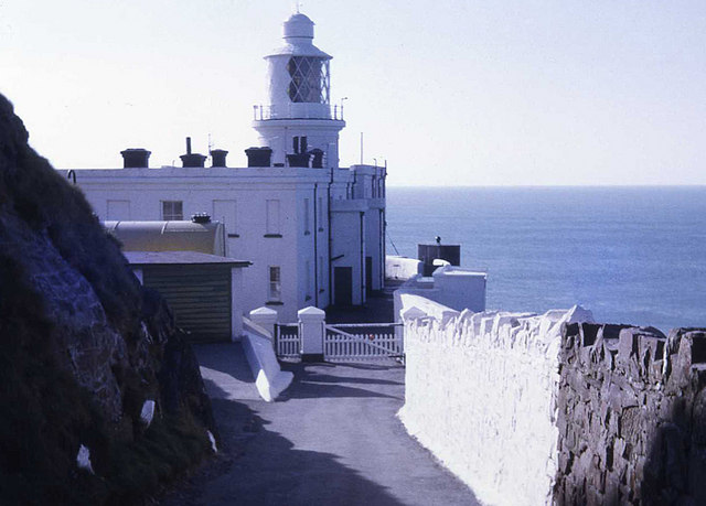 Entrance road to Hartland Point lighthouse The lighthouse was built by Trinity House in 1874 under the direction of Sir James Douglass. This picture was taken in 1973, when the station was manned by four keepers, who lived in the houses in the foreground with their families. When the light was automated in 1984, these buildings were demolished to make way for the helipad.